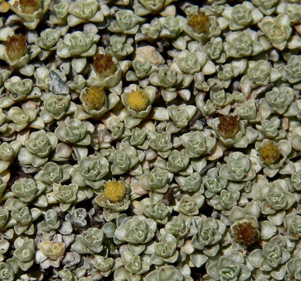 Photo of Raoulia hookeri at the San Francisco Botanical Garden